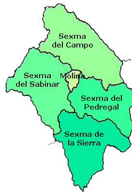 Sexmas of Molina Manor (Spain) map.